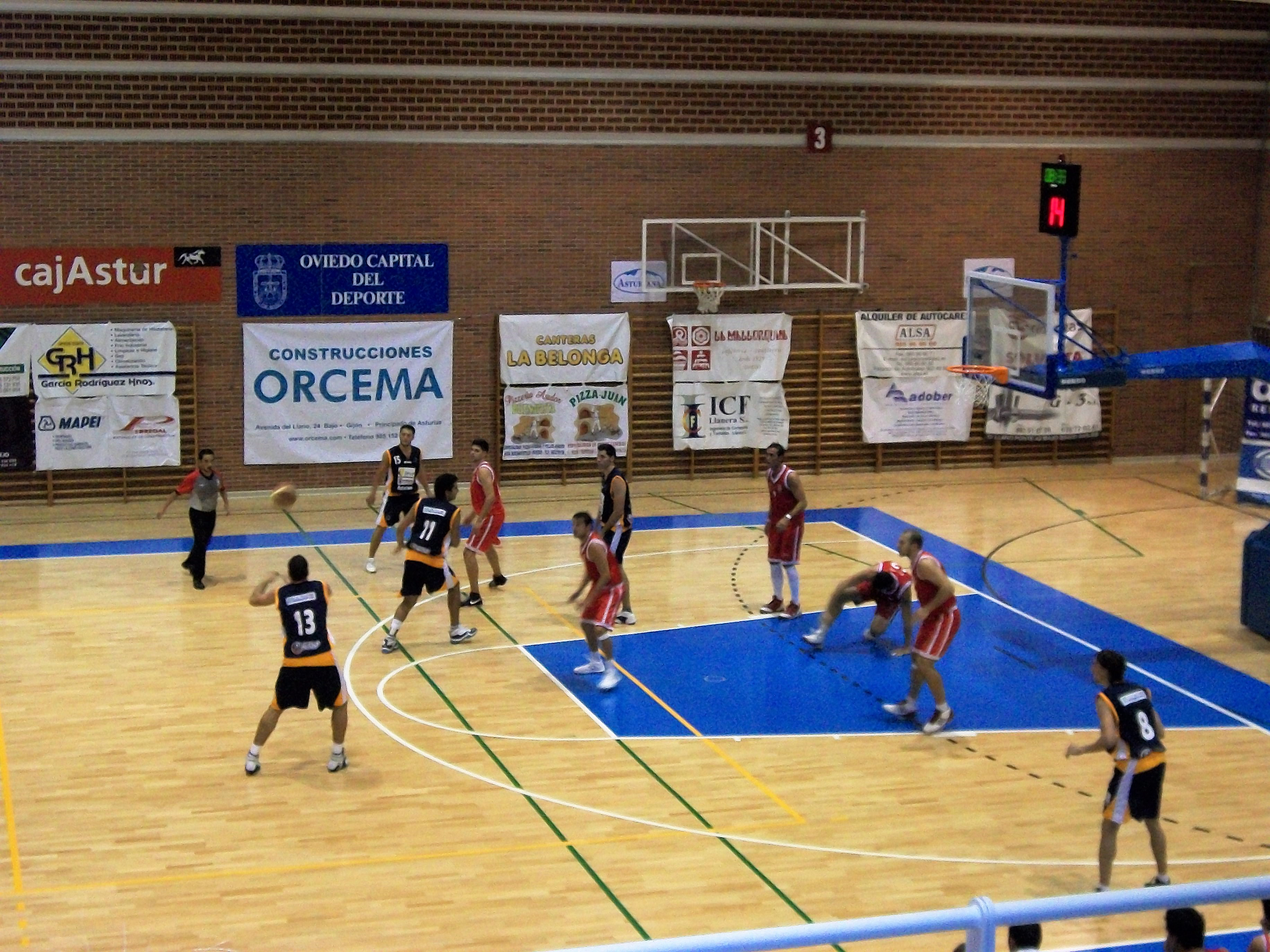 A play during the basketball match between Oviedo CB and Ferrol CB of the Spanish 2009–10 Liga EBA (fourth tier).